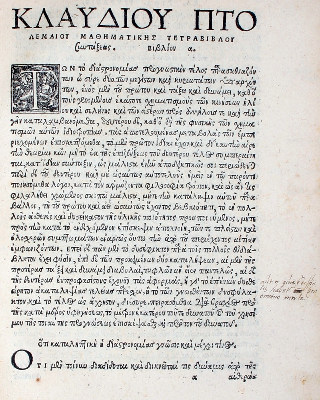 First edition in Greek of Ptolemy's Tetrabiblos, published in Nuremberg in 1535. Greek text of the opening chapter displayed.